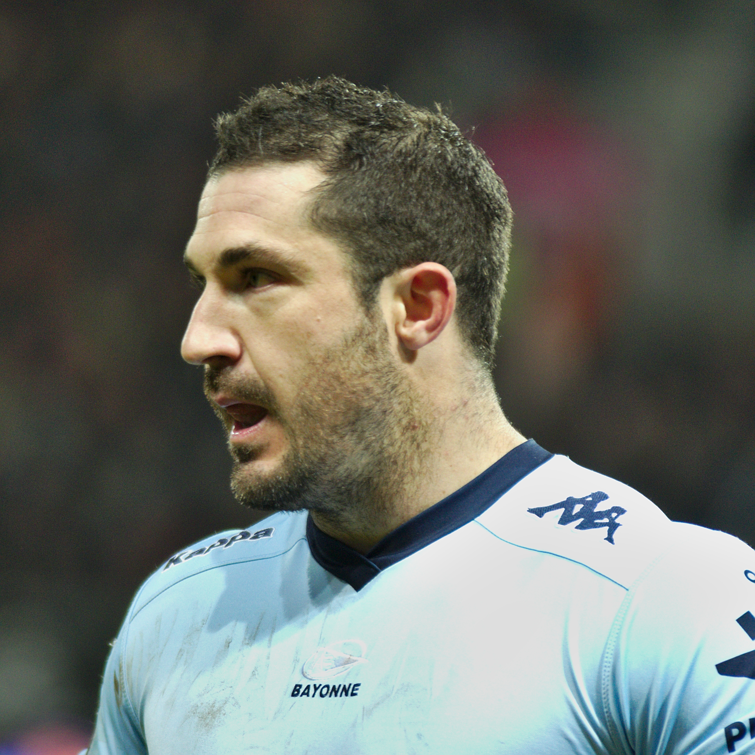 USO-AB - 20131221 - Scott Spedding